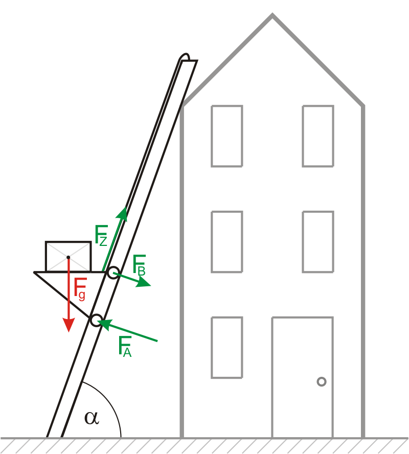 The Culmann method in 4 Steps